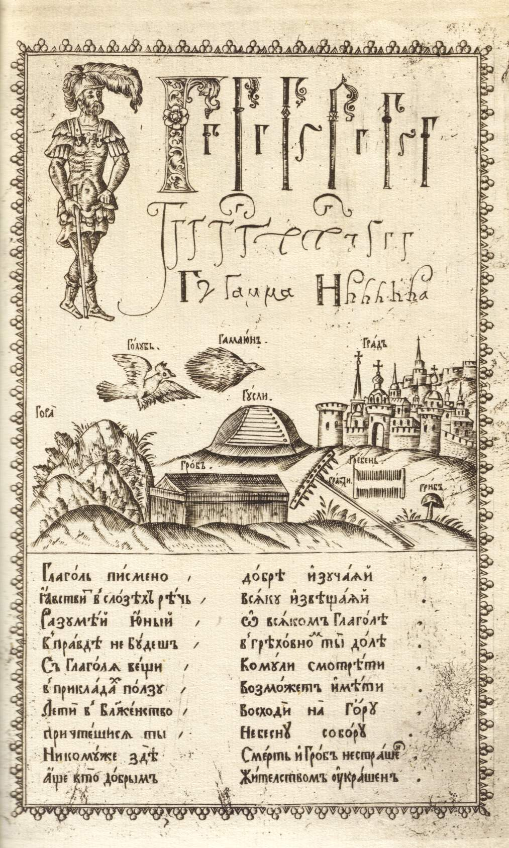 Karion Istomin's alphabet book, letter Г